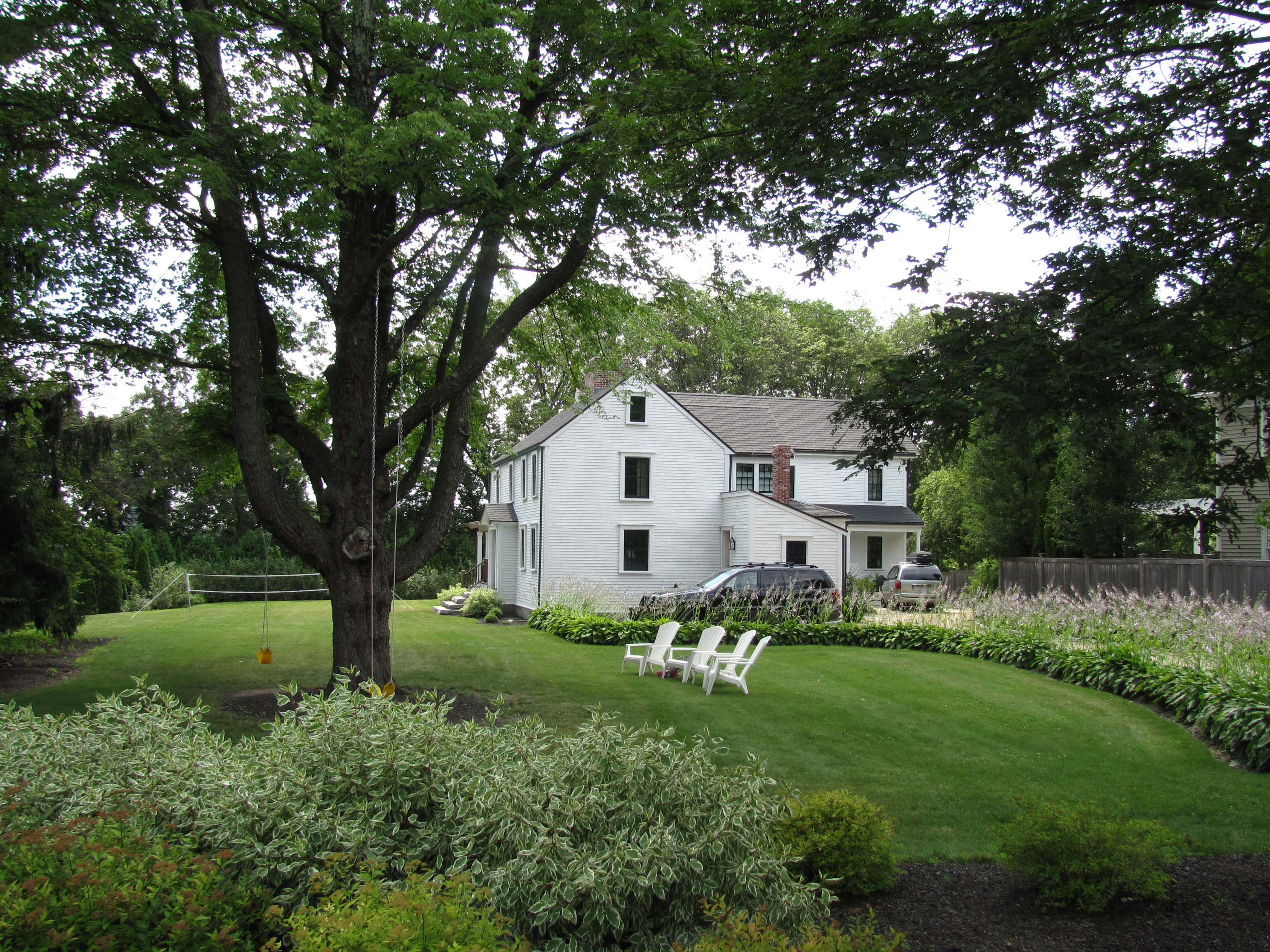 John Woodward House, Waban Massachusetts